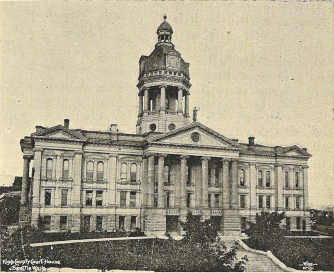 The 1890 King County Court House at Seventh Avenue and Jefferson Street on Seattle, Washington's First Hill (which became known as "Profanity Hill" for the miserable climb up from downtown). This was the courthouse until 1917, and was torn down in the 1930s. The location would now be roughly between Harborview Medical Center and Interstate 5.